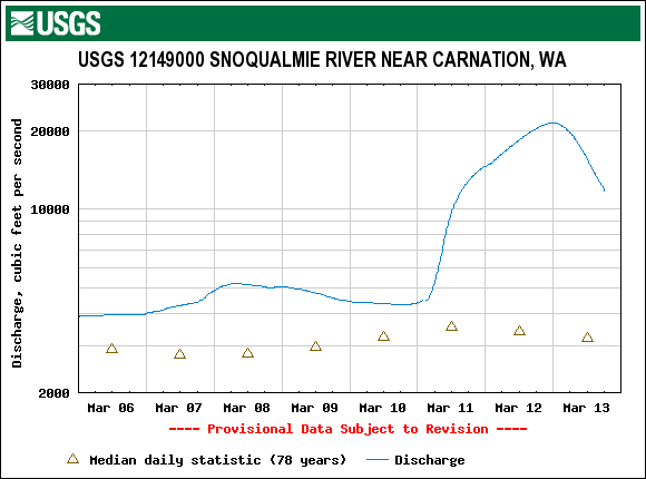 Pineapple Express flood, Stream Gaging Station USGS 12149000 Snoqualmie River near Carnation, Washington